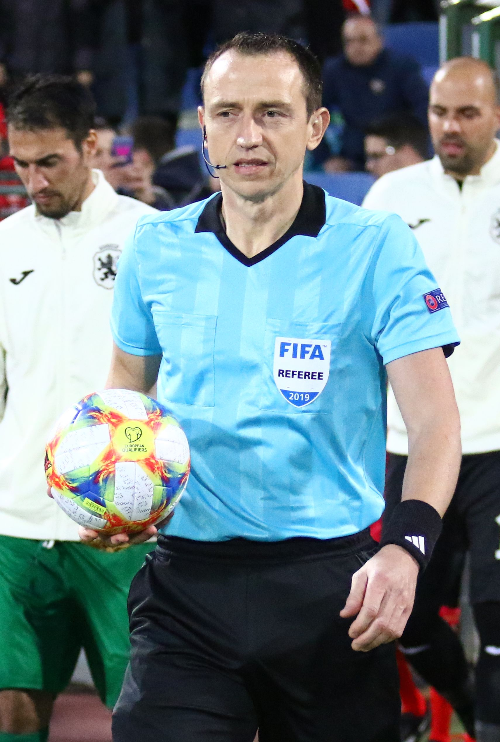 Ruddy Buquet (born 29 January 1977) is a French professional football referee.[1] He has been a full international for FIFA since 2011.